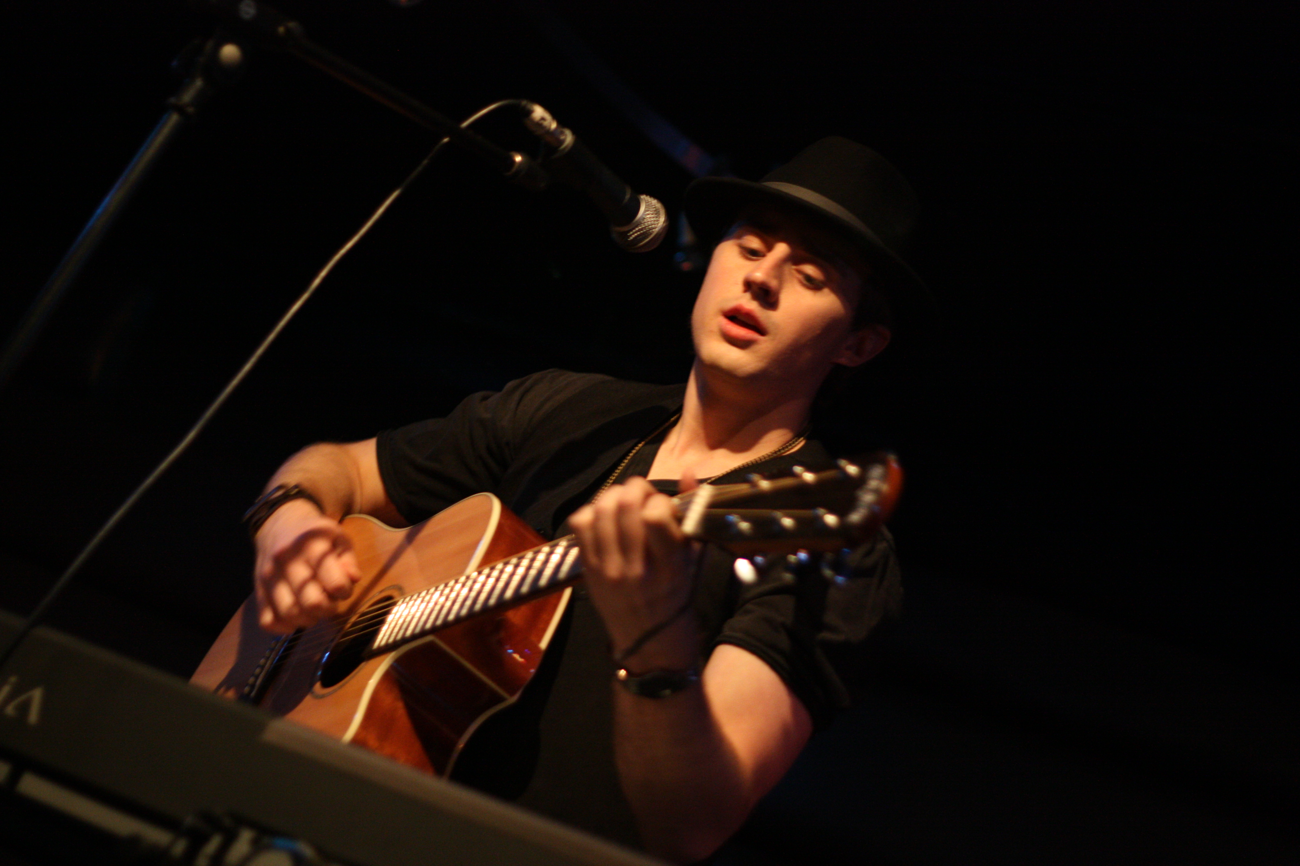 Cody Wood Live at the Key Club on the Sunset Strip in Los Angeles California